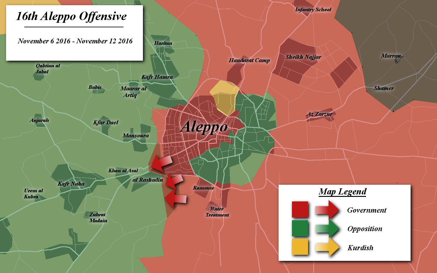 A simplified version of the Government Aleppo Counteroffensive. Created in gimp 2.8. Influenced by many maps from creators: MrPenguin20, PetoLucem, Edmaps Syria, and so on.